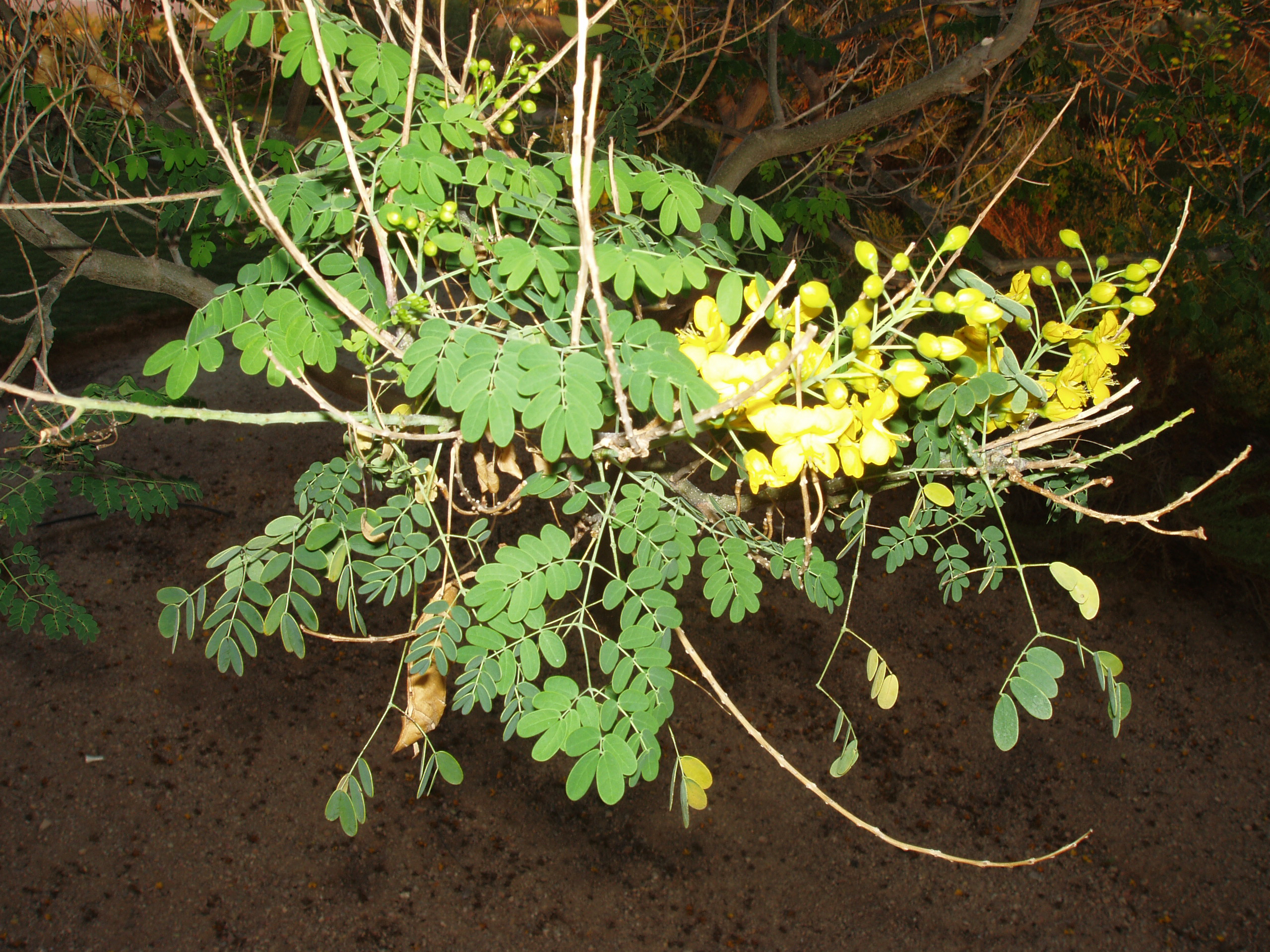 Senna (unknown species), taken close to Phoenix, Arizona, early august 2007